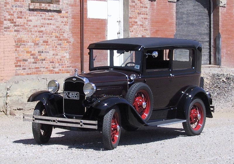 1931 Model A Ford Deluxe Tudor Sedan owned by Rick & Dana Black, El Paso Texas. Photographed in 2003 next to abandoned railroad freight station near downtown El Paso Texas.